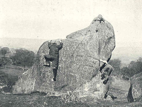 Bulder